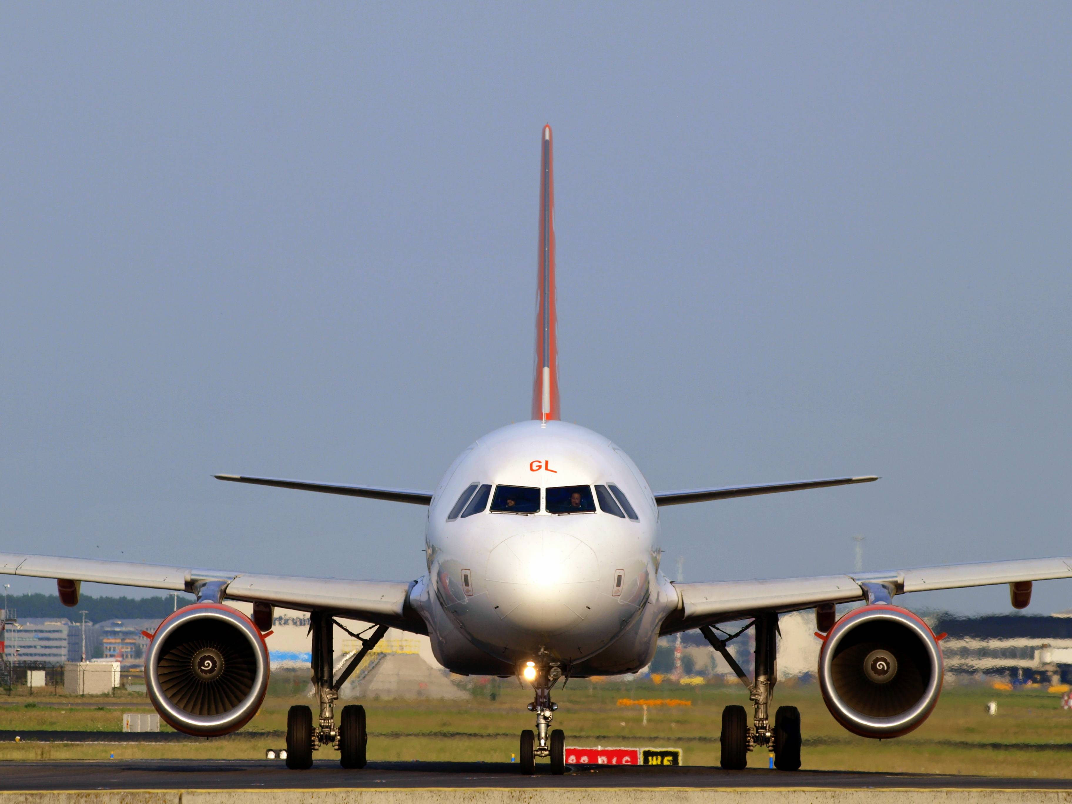 Photographed at Schiphol, Amsterdam airport, (IATA: AMS, ICAO: EHAM), the Netherlands.